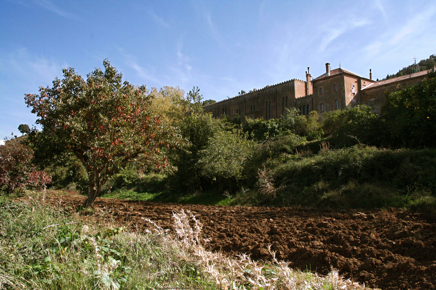 Cistercian monastery of Tibhirine in Algeria.